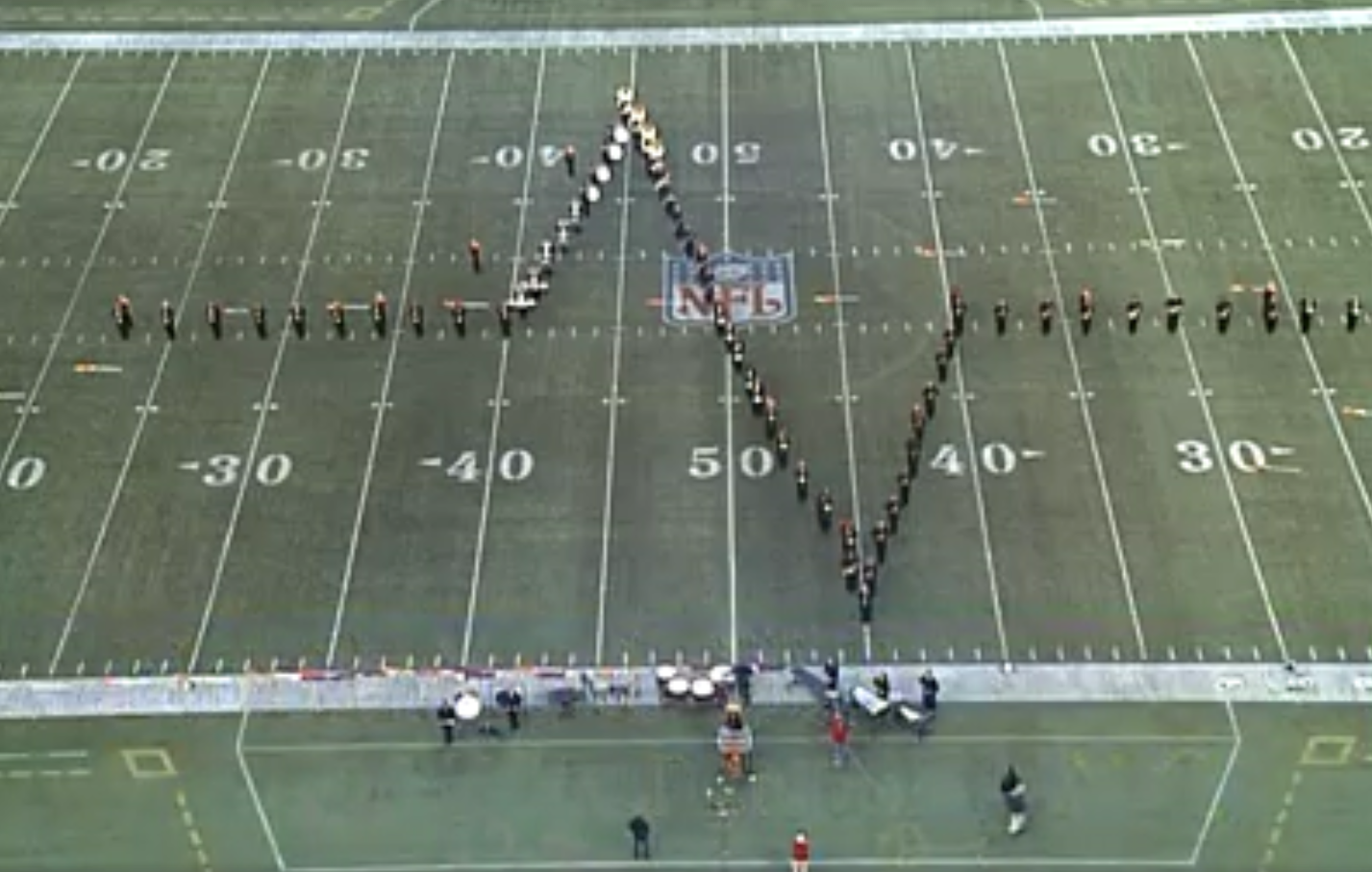 The Marching Chargers take the field at Giants' Stadium, October 7th, 2006.